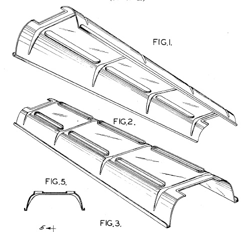 This is a drawing contained in the US design patent to which the court refers in Compco v Day-Brite. As a US patent drawing it is in the public domain.